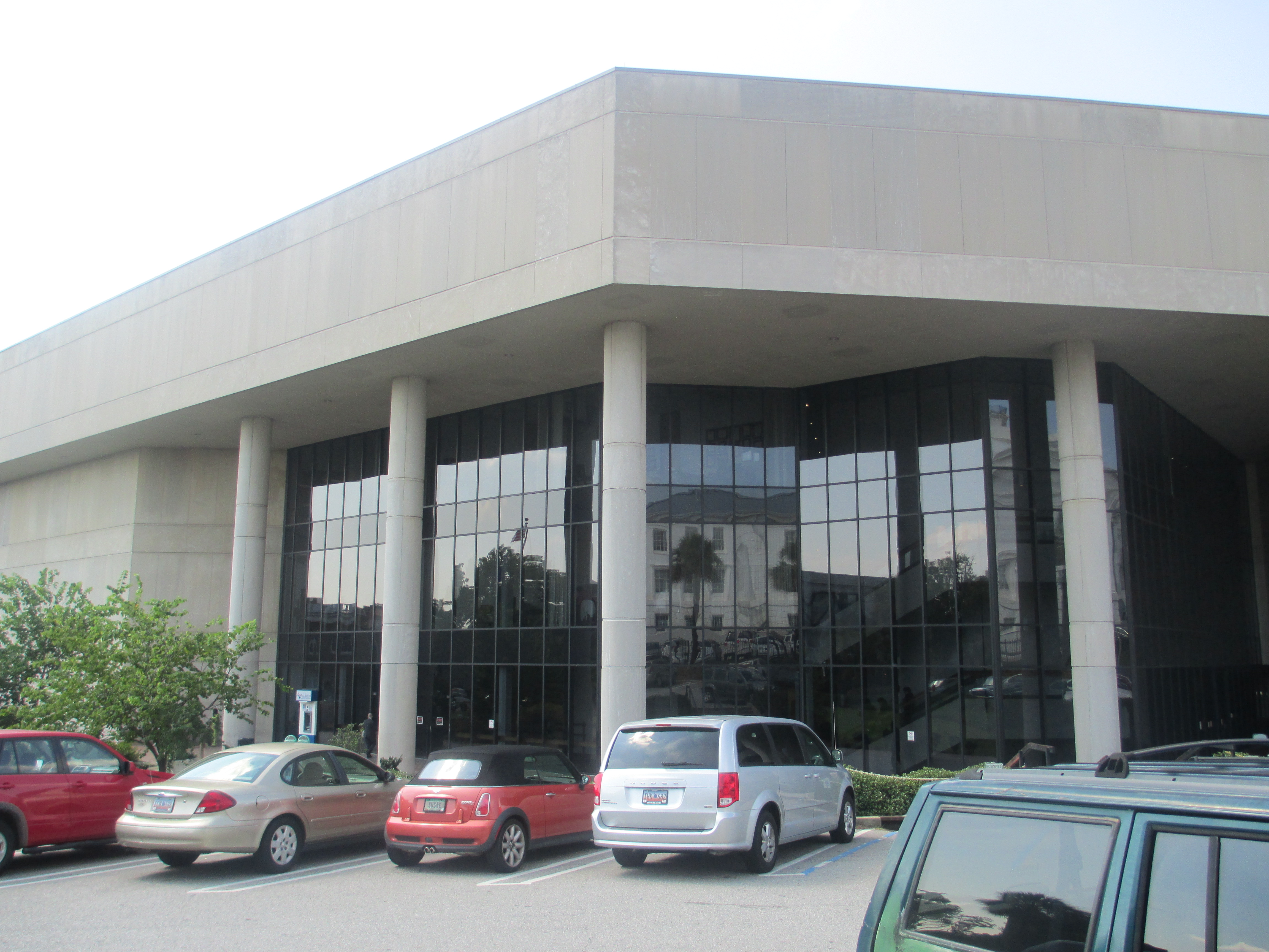 I took photo with Canon camera in Columbia of the Richland County, SC, Justice Center.